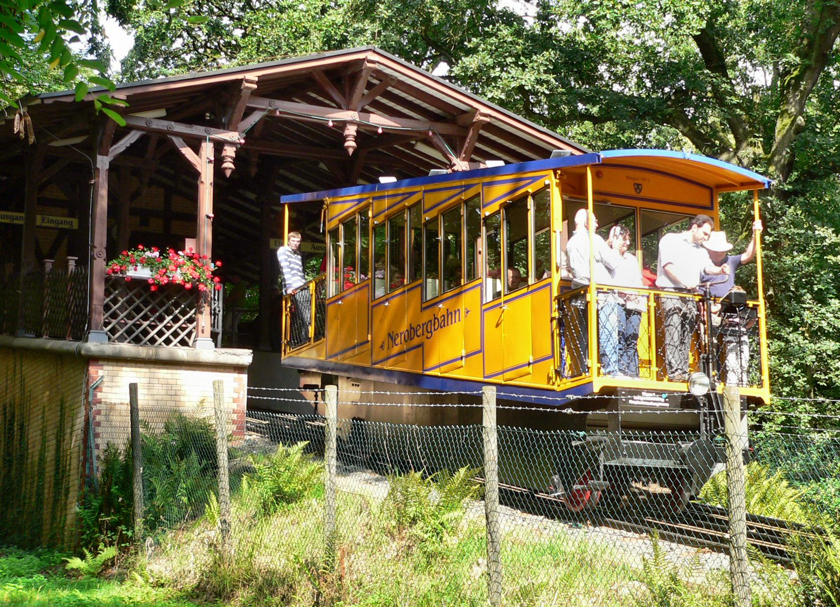 Nerobergbahn funicular railway at the upper station. Wiesbaden, Germany.